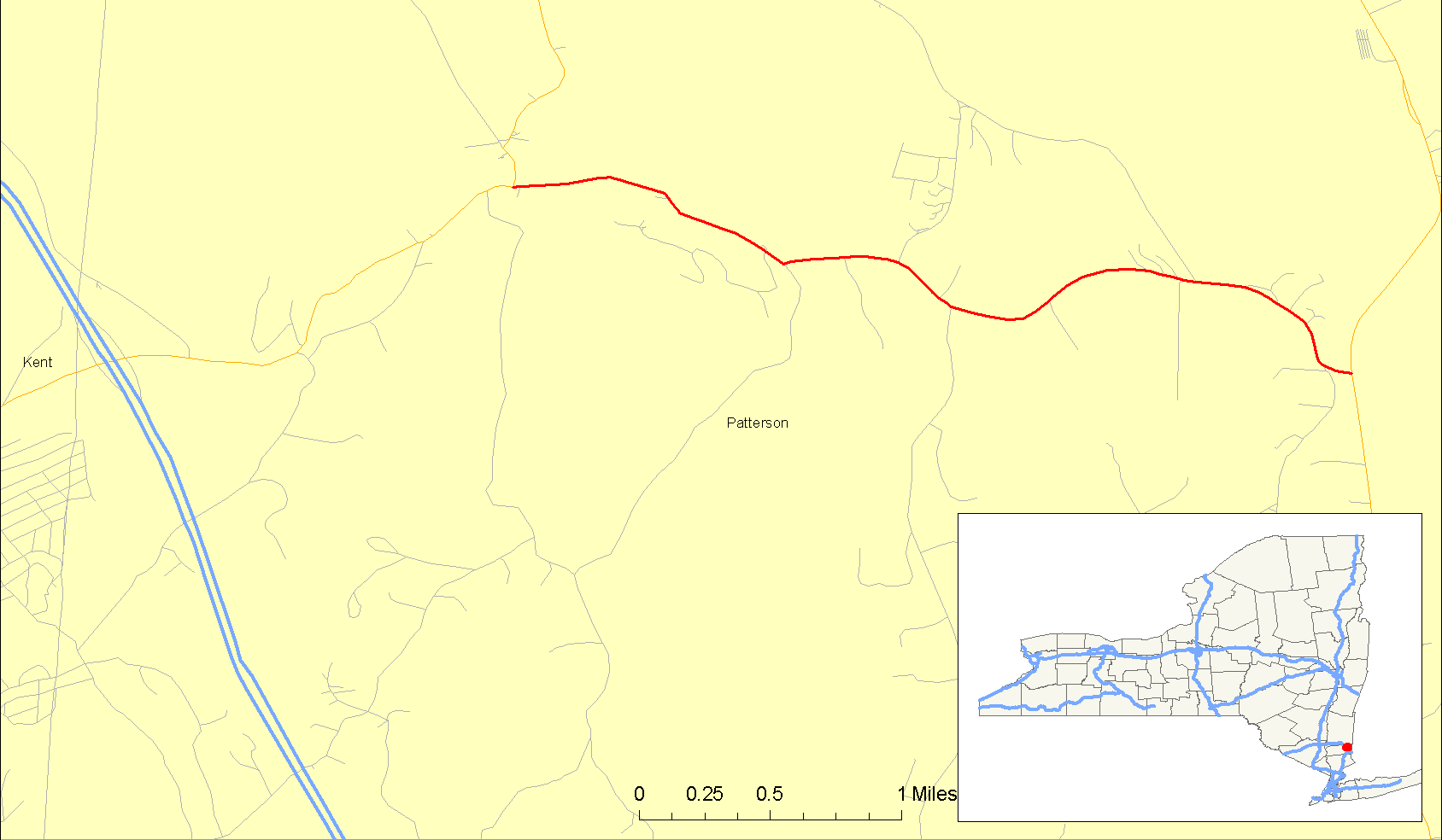 Map of New York State Route 164